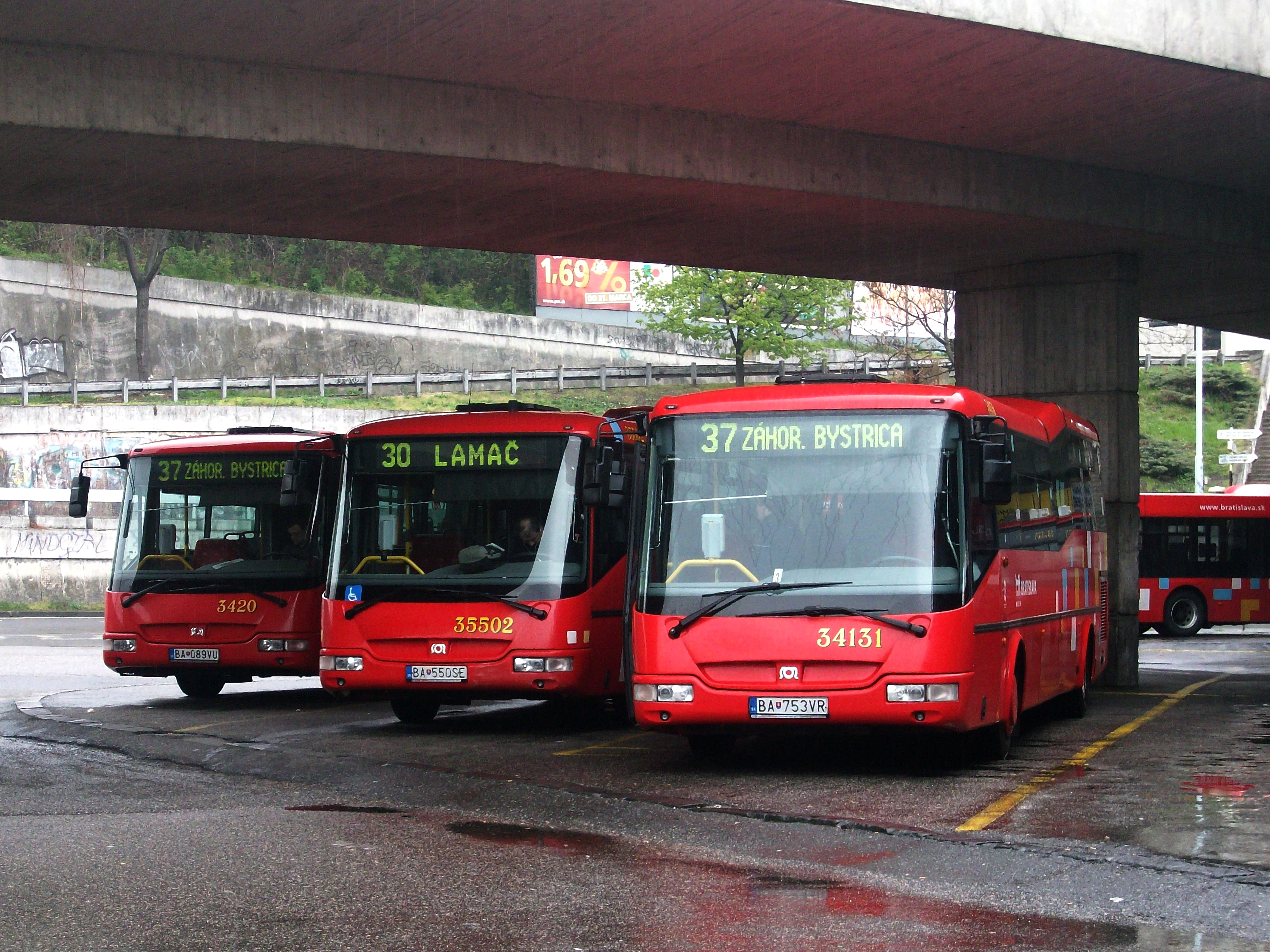 SOR BN 9,5, Bratislava